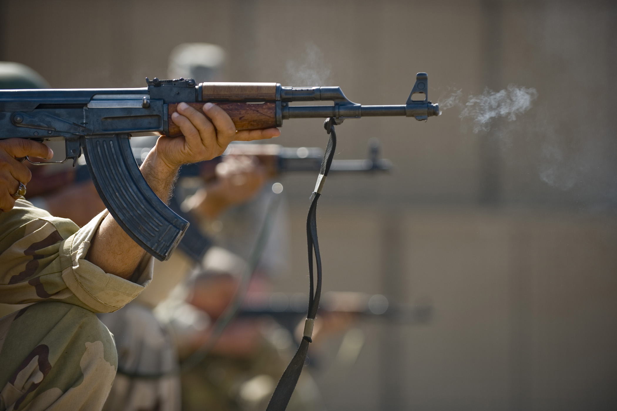 Iraqi airmen fire AK-47s during firing drills March 29, 2011. Members of the 447th Expeditionary Security Forces Squadron trained Iraqi security forces airmen ensuring weapons qualification and teaching defensive tactics, vehicle searches and other force protection measures. (U.S. Air Force photo/Staff Sgt. Levi Riendeau)